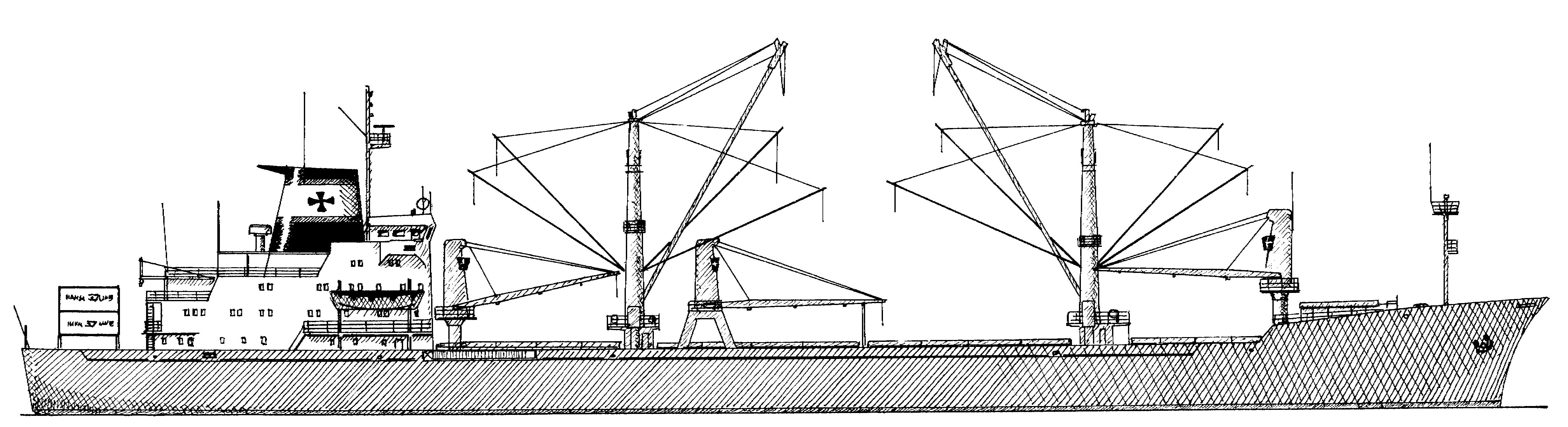 MV Steinfels